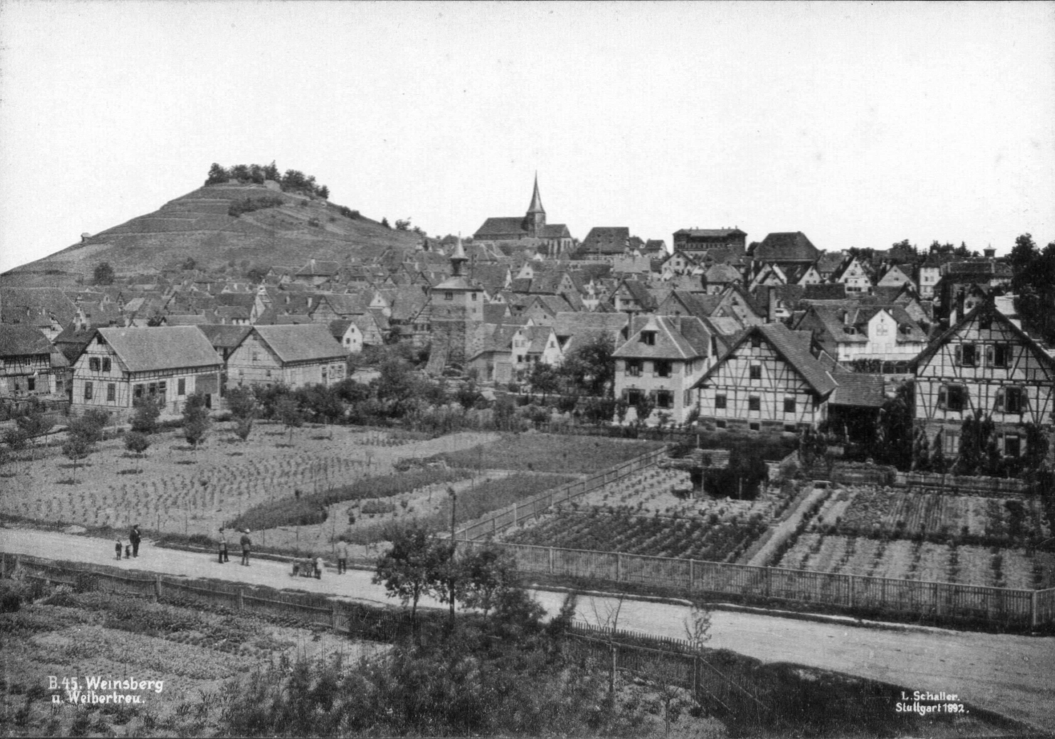 Weinsberg. Old photograph